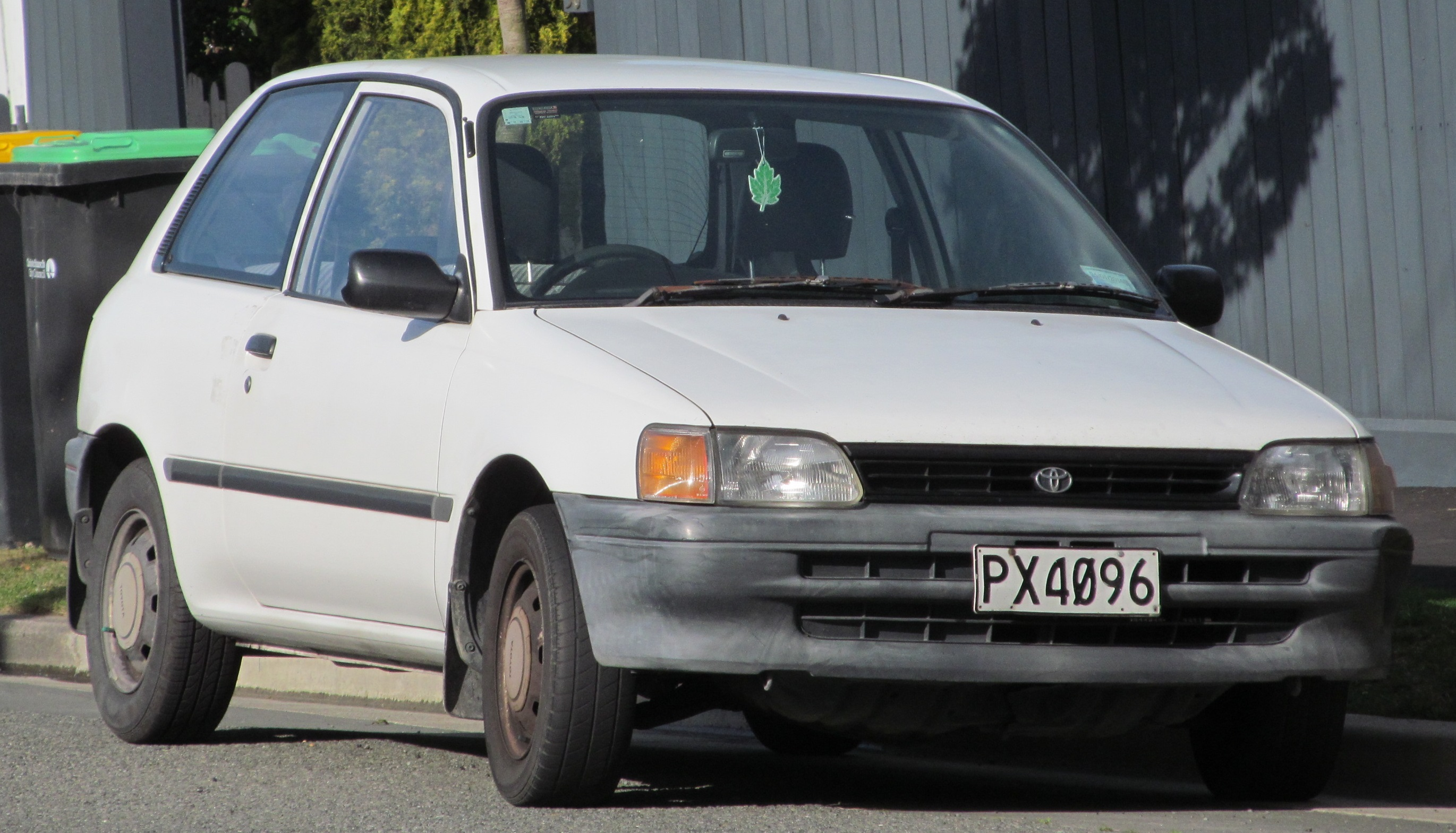 1991 Toyota Starlet (New Zealand)